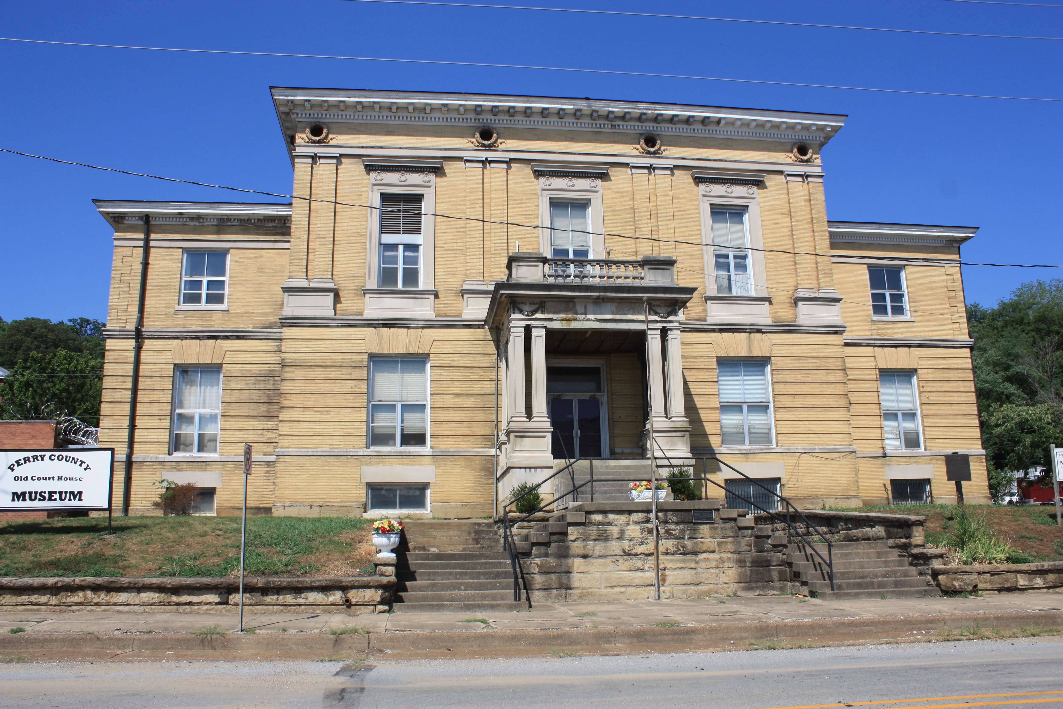 Perry County Old Courthouse, built in 1896, now houses the museum located in Cannelton, Indiana.